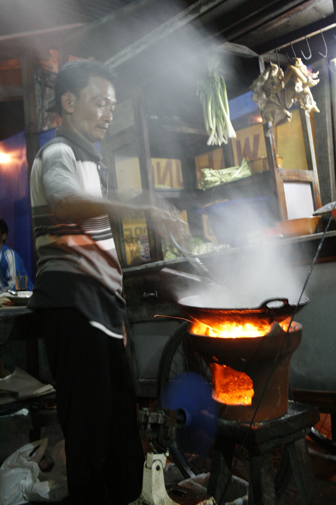 Bakmi Jawa or Bakmi Godhog chef